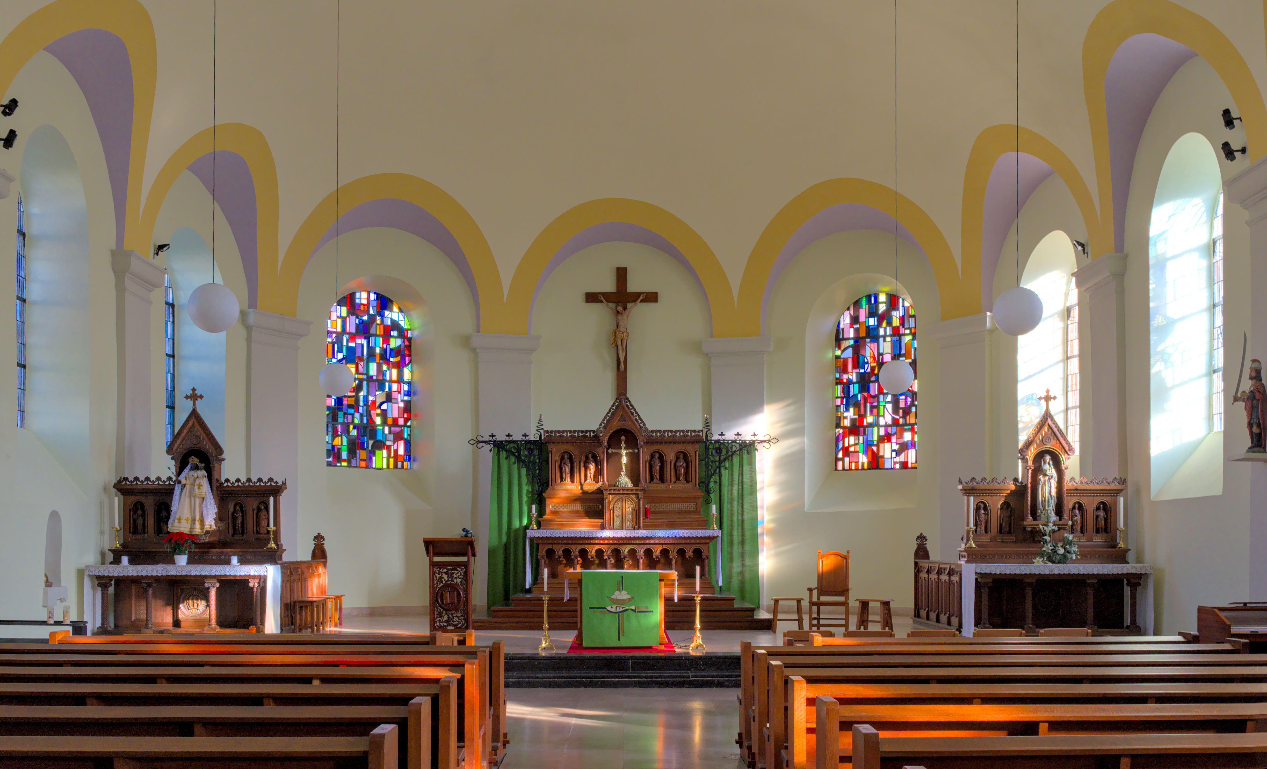 Interior of Église Sainte-Walburge in Chiny, Belgium This photo of immovable heritage has been taken in the Walloon Region